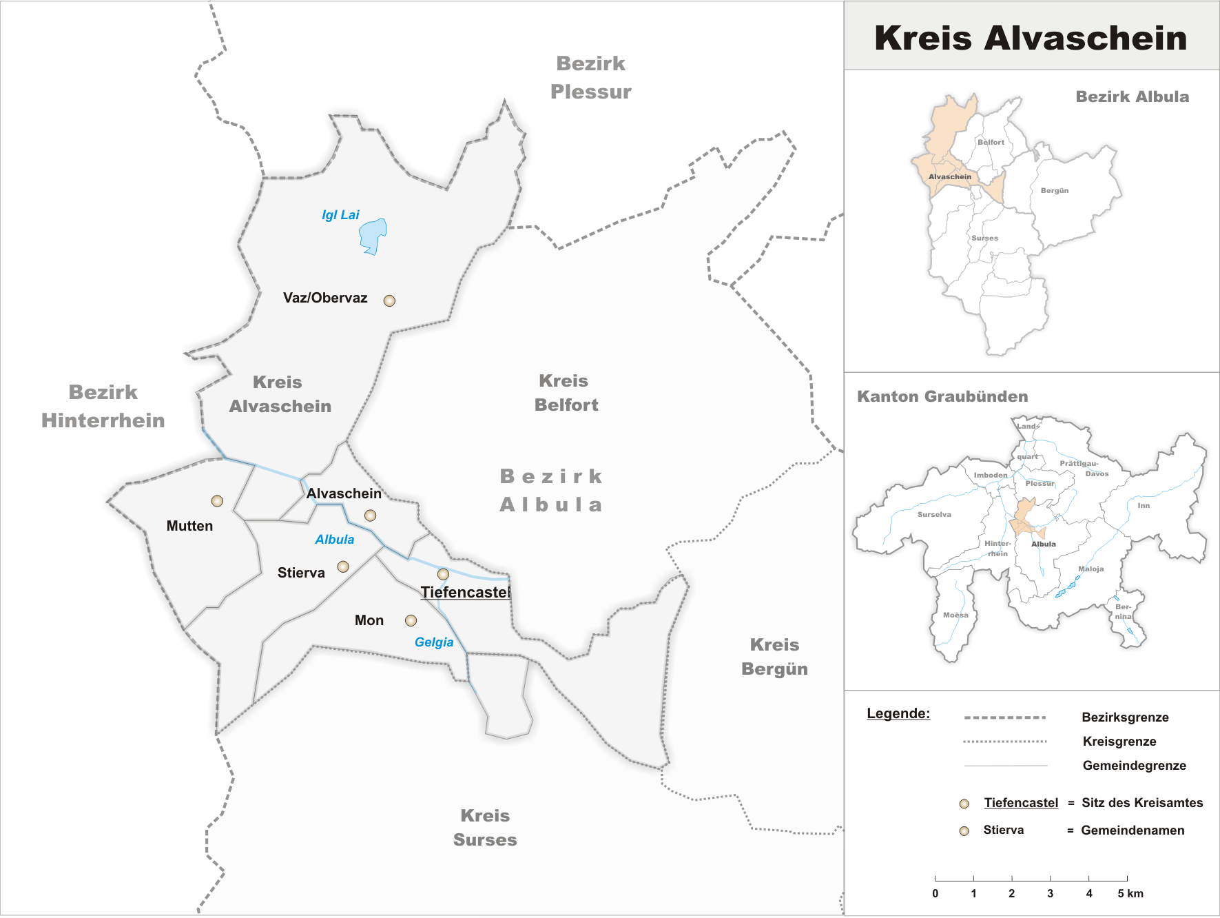 Municipalities in the circle of Alvaschein